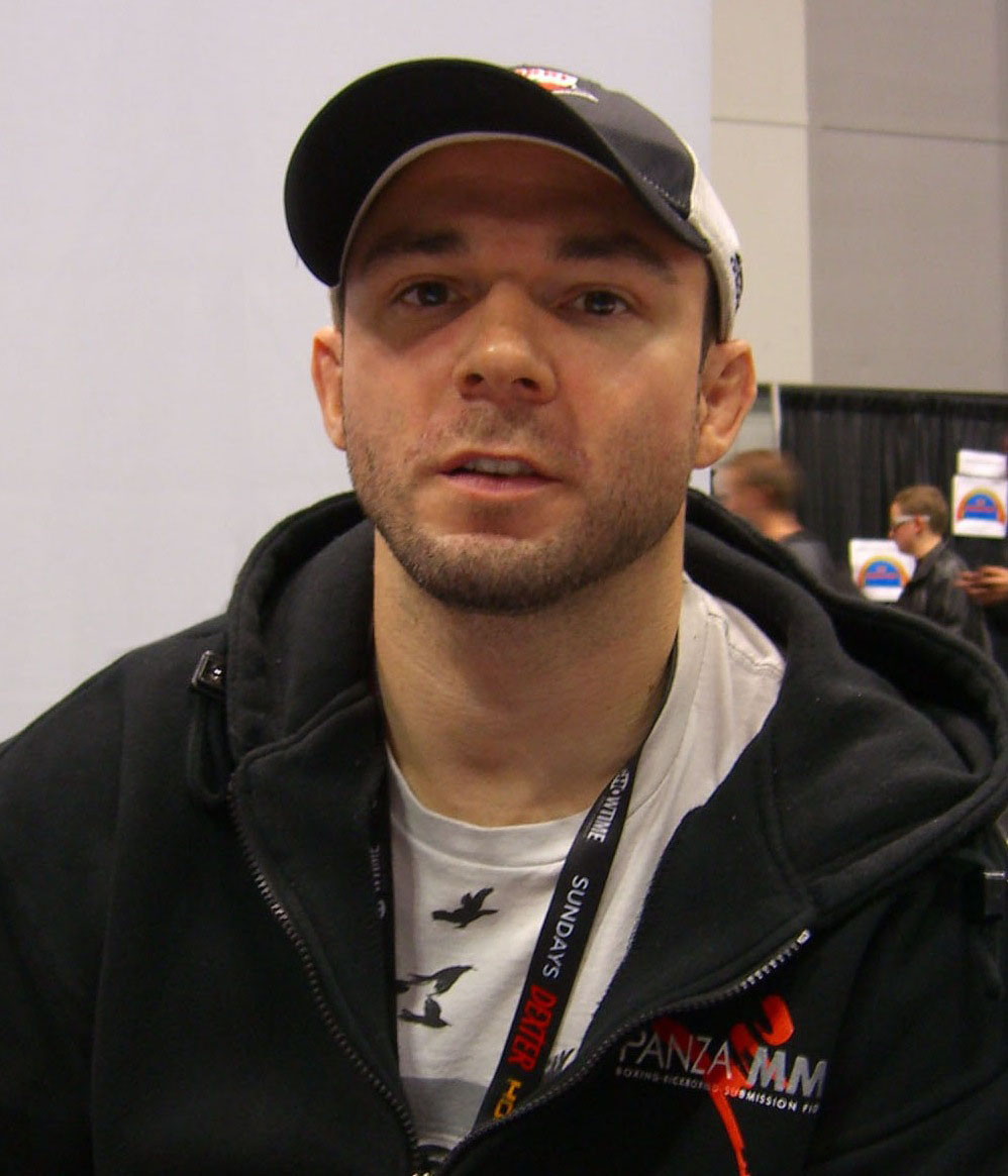 Comics creator Ryan Colucci during an October 16, 2011 appearance at the New York Comic Con in Manhattan. This photo was created by Luigi Novi. It is not in the public domain, and use of this file outside of the licensing terms is a copyright violation.